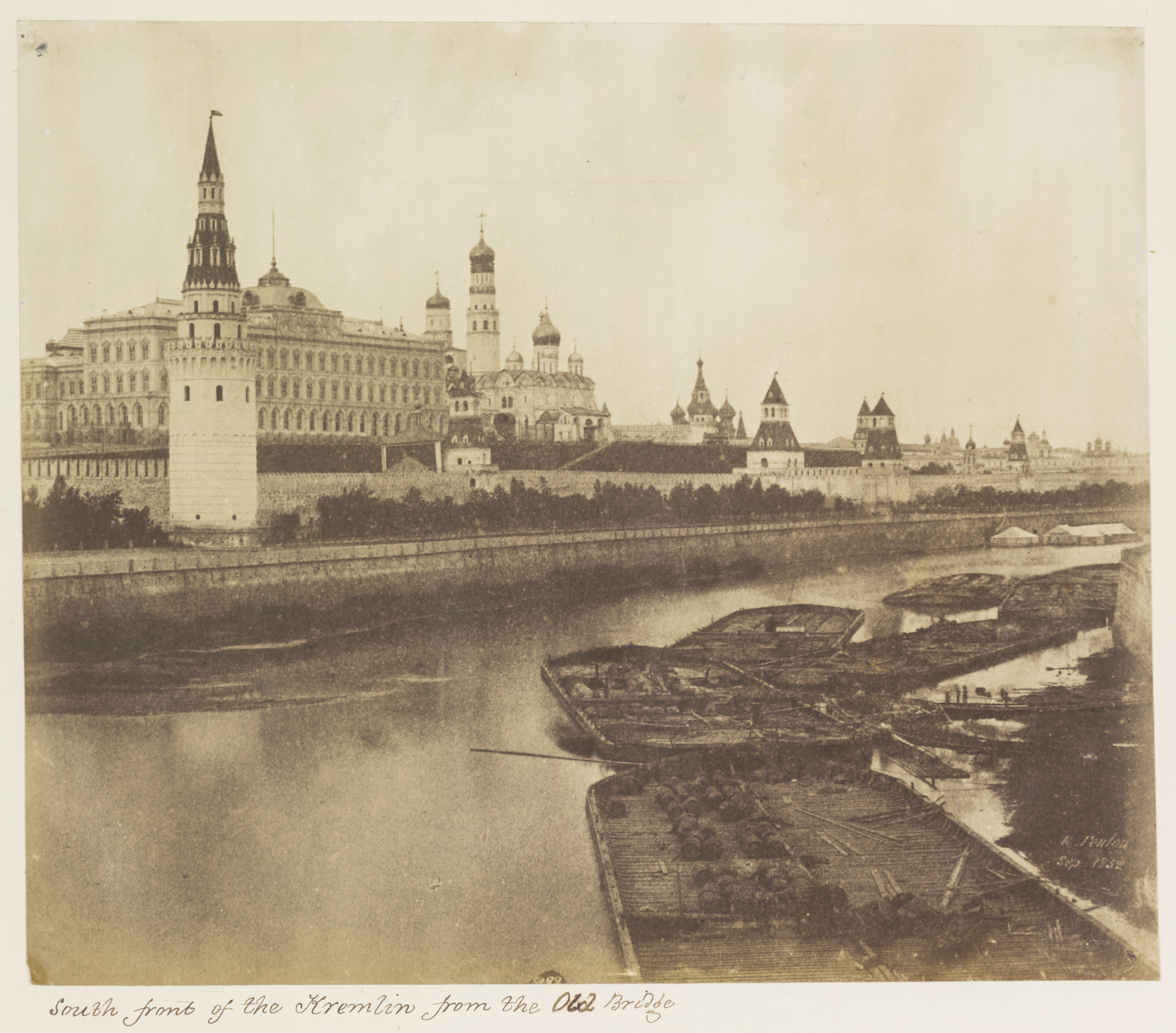 South Front of the Kremlin from the Old Bridge